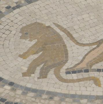 Mosaic at Volubolis, Morocco